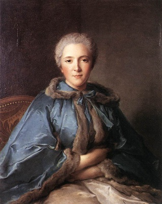 Michelle-Julie-Françoise Bouchard d’Esparbès de Lussard d’Aubeterre de Jonzac (1715–1757), wife (1730) of Jacques Tannegui Le Veneur, marquis de Tillières